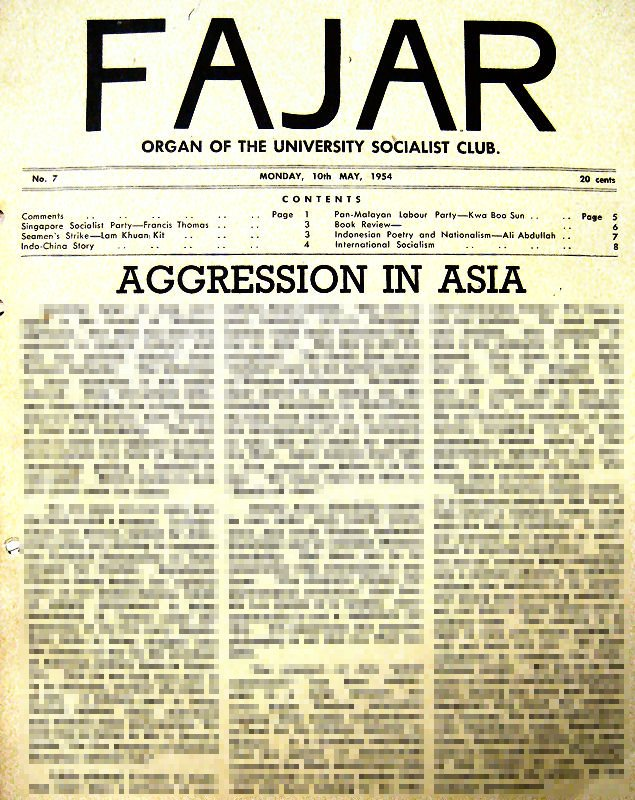 The first page of issue 7 of Fajar (Dawn; 10 May 1954), the official organ of the University Socialist Club, University of Malaya in Singapore. The publication of this newsletter led to eight members of the Club being charged with sedition. Represented by Lee Kuan Yew and Denis Nowell Pritt, Q.C., they were acquitted on 25 August 1954.